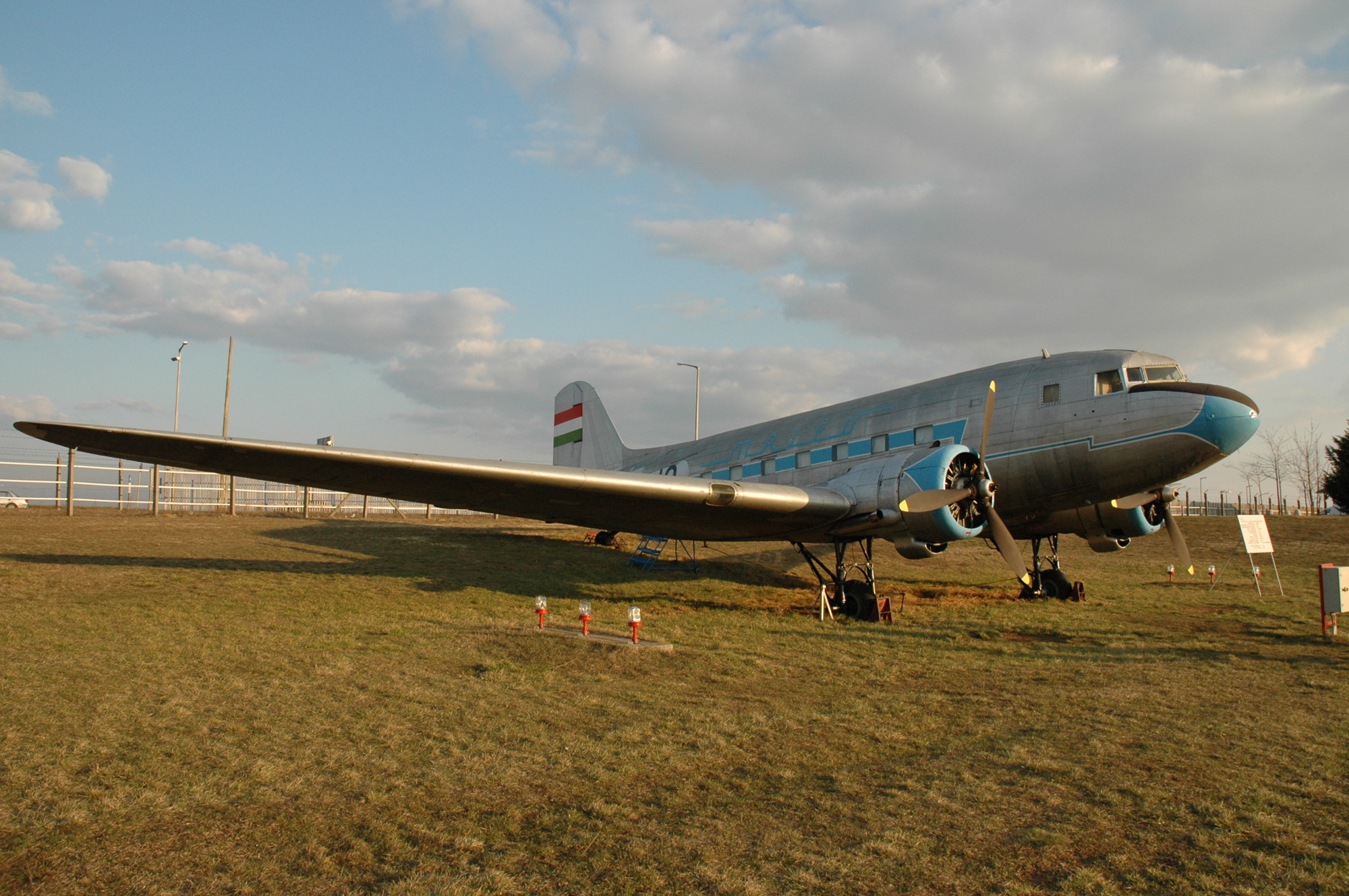 Lisunov Li-2 (reg. HA-LIQ), displayed at the Aviation Memorial Park (Budapest, Hungary)